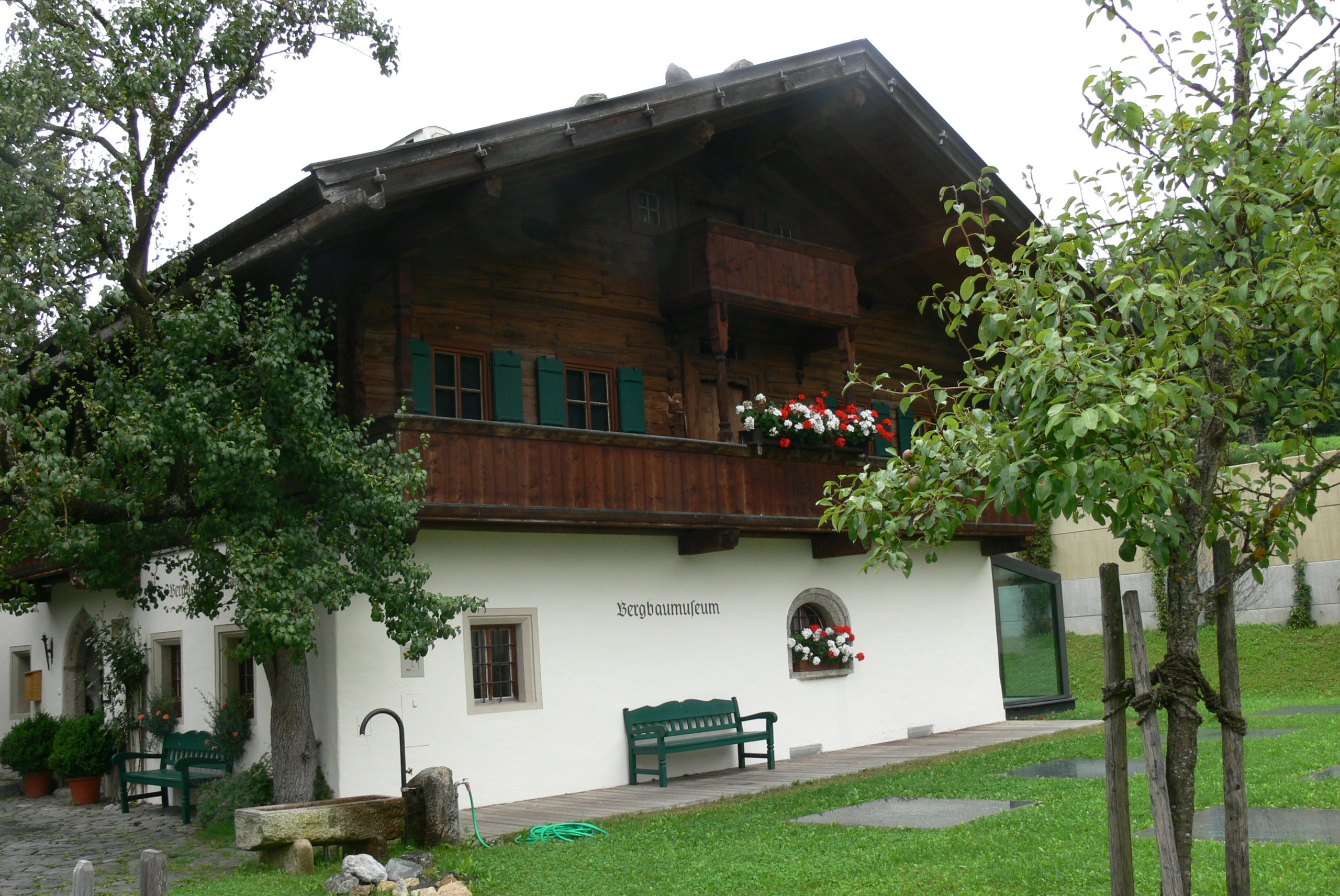 Museum of Mining and Gothic art in Leogang ( Salzburg state ). Exterior.